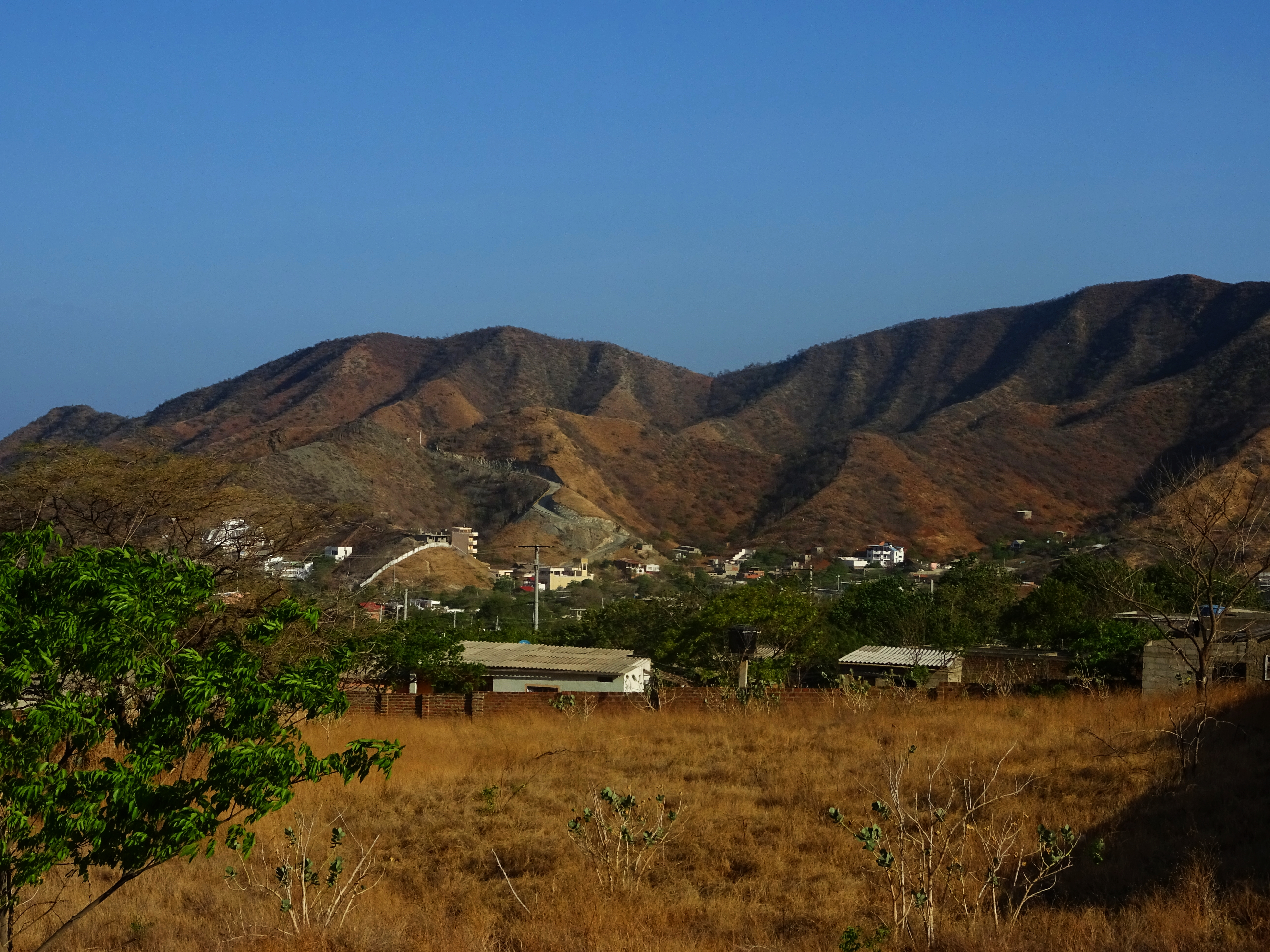 Draught of Taganga, as seen from the brown vegatation in the north of the village; one day of rain (24-02-2016) between November 2015 and May 2016